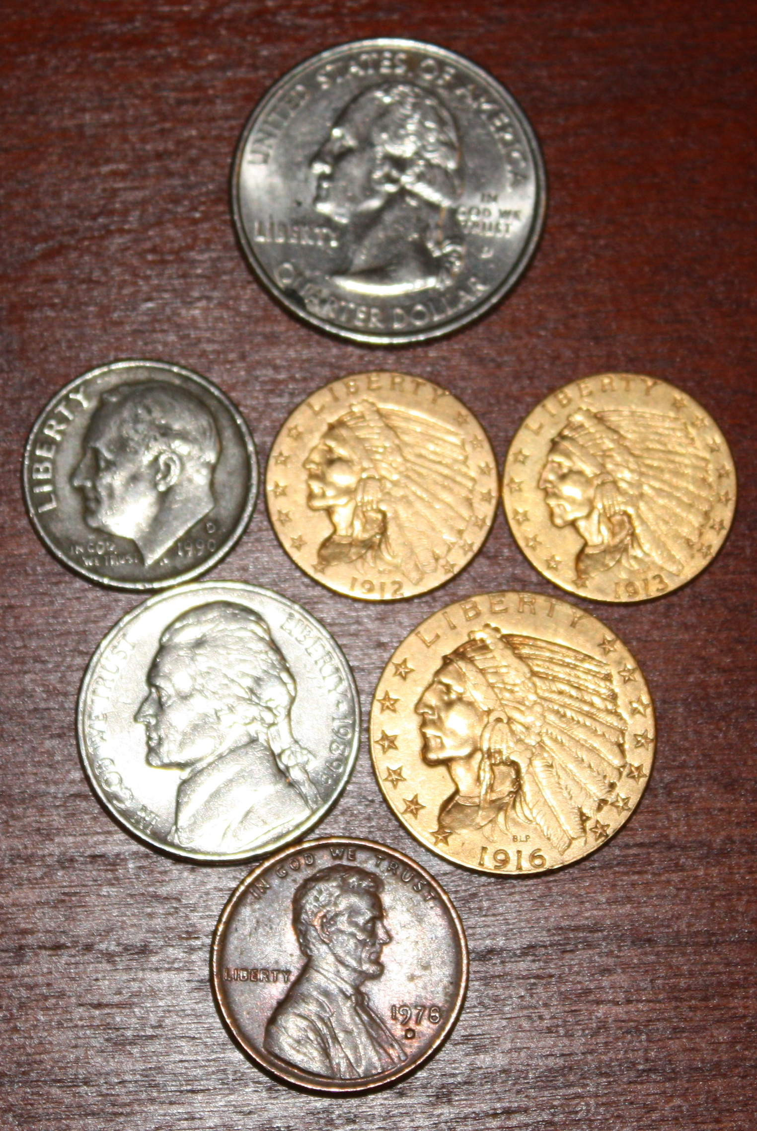 Size comparison image for the Indian Head gold pieces.